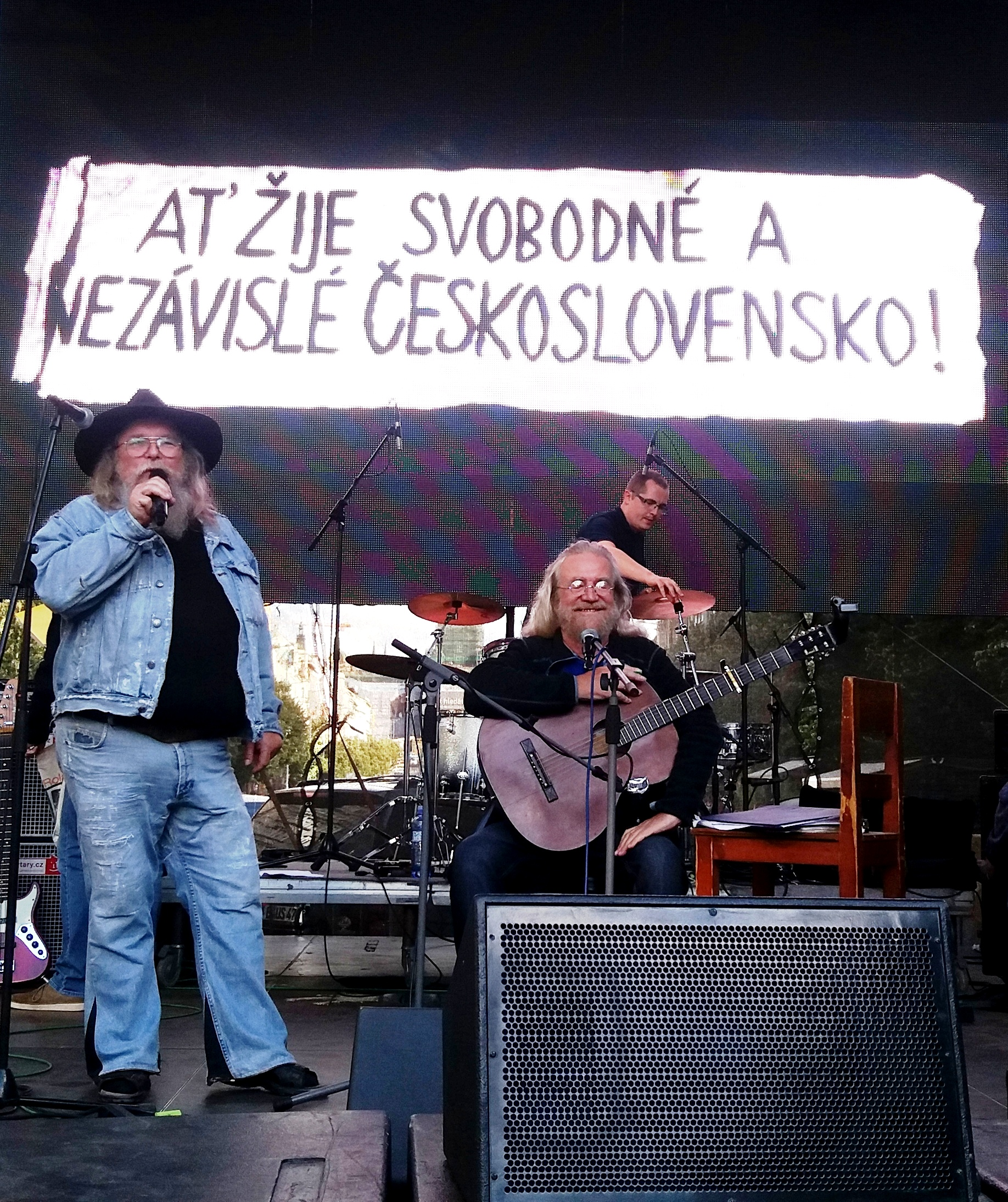 František Stárek, nicknamed Čuňas (left), Czech writer and former dissident and Jaroslav Hutka, Czech musician